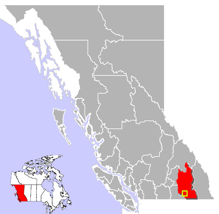 Location of Castlegar